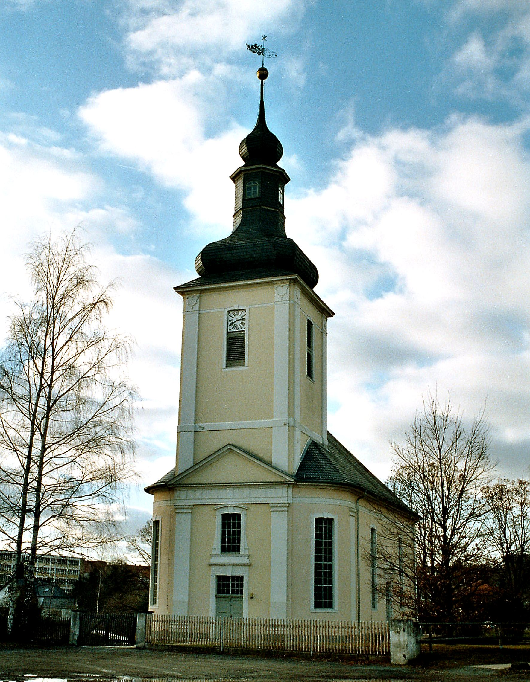 St. Gangloff, the village church